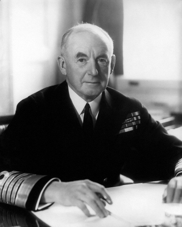 Sir Alfred Dudley Pickman Rogers Pound, British Admiral of the Fleet, First Sea Lord, head of the Royal Navy, June 1939–1943